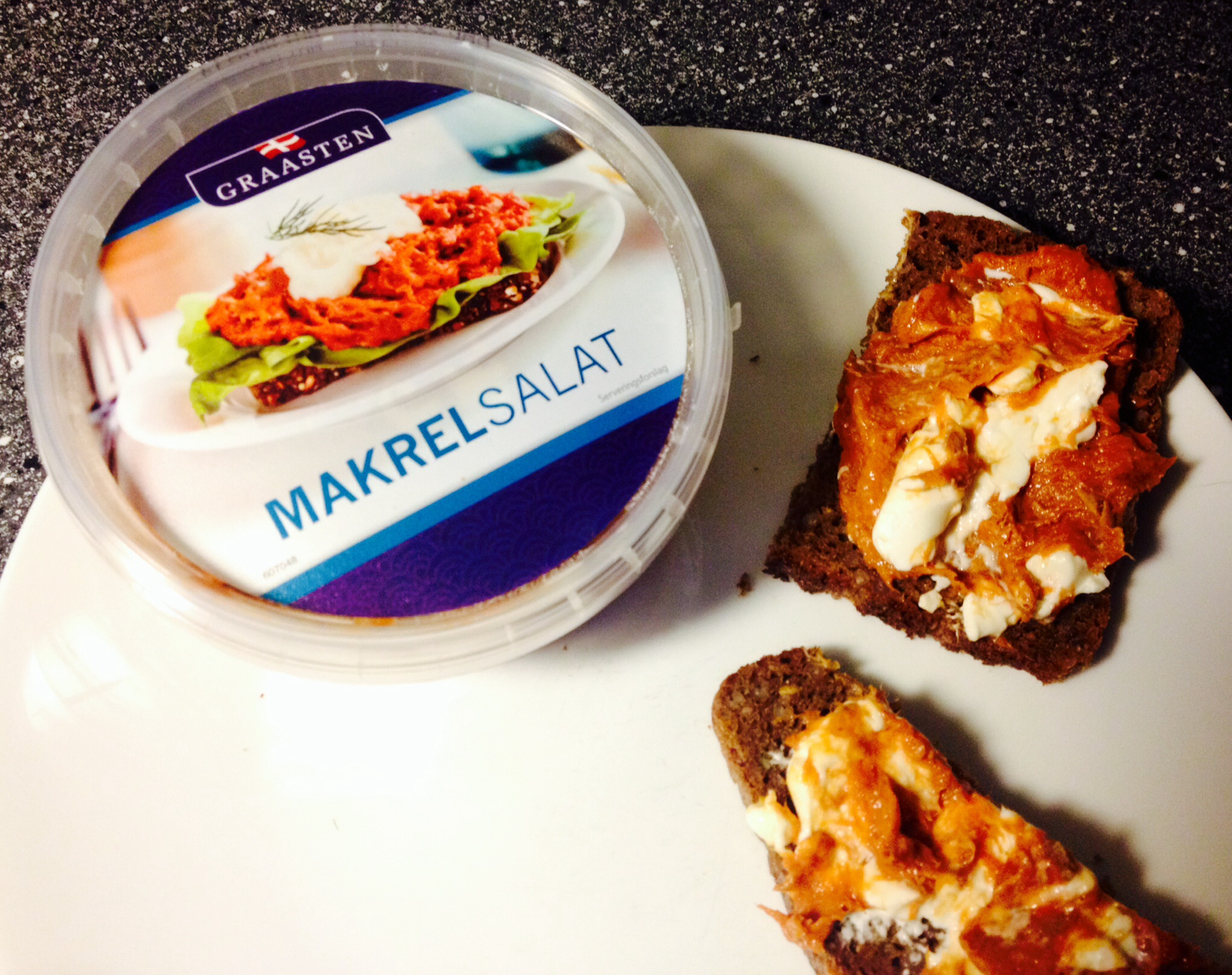 Mackerel Salad.